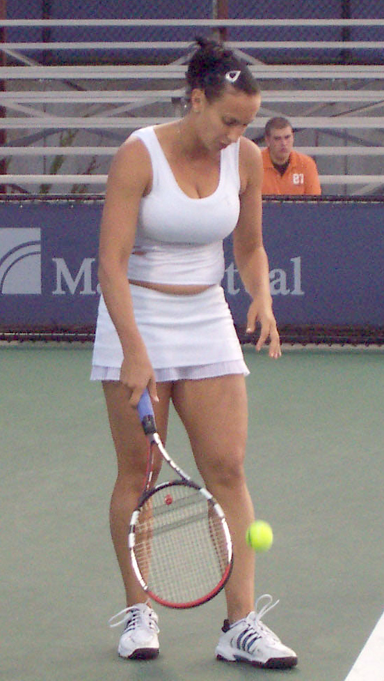 Iroda Tulyaganova Playing In The 2007 US Open Qualifying